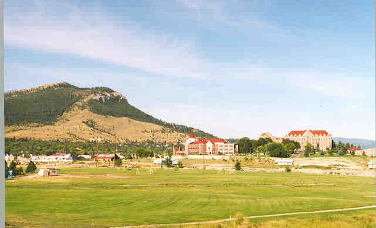 Image of Carroll College, in Helena, Montana, U.S. Mount Helena is in the background.